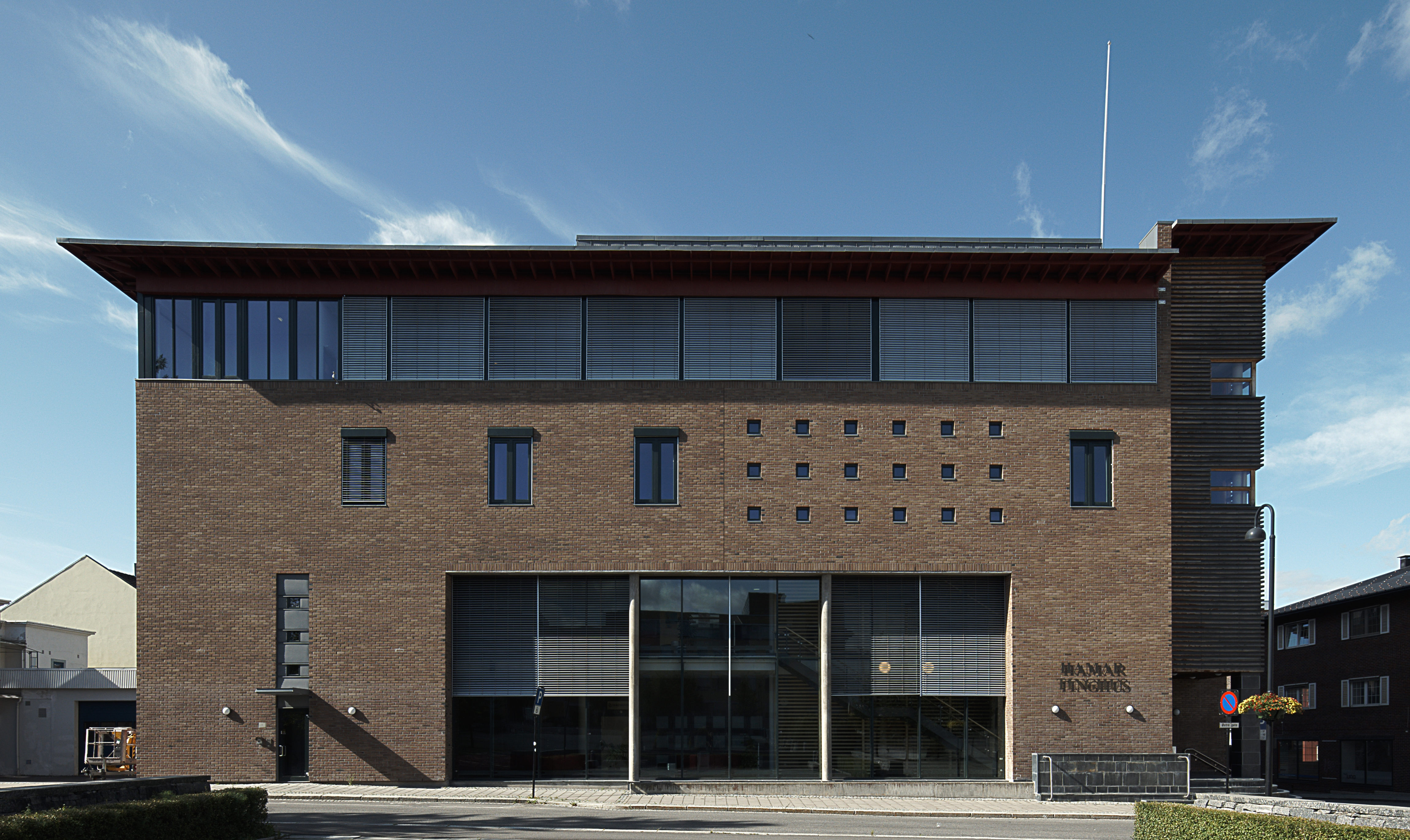 Hamar Courthouse. 2014. seen from north-east.